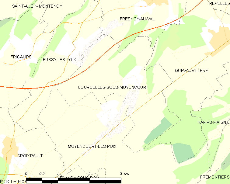 Map of French municipality Courcelles-sous-Moyencourt